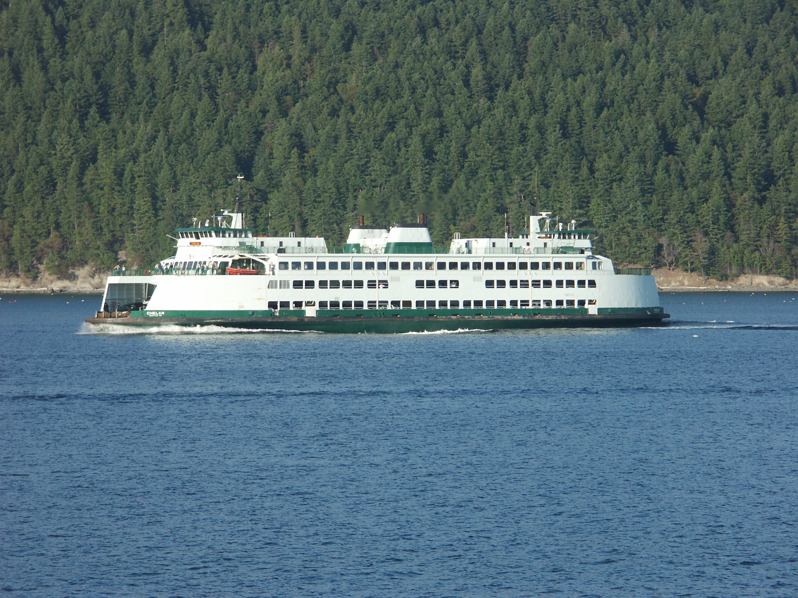 M/V Chelan in the San Juan Islands. 6/30/2007